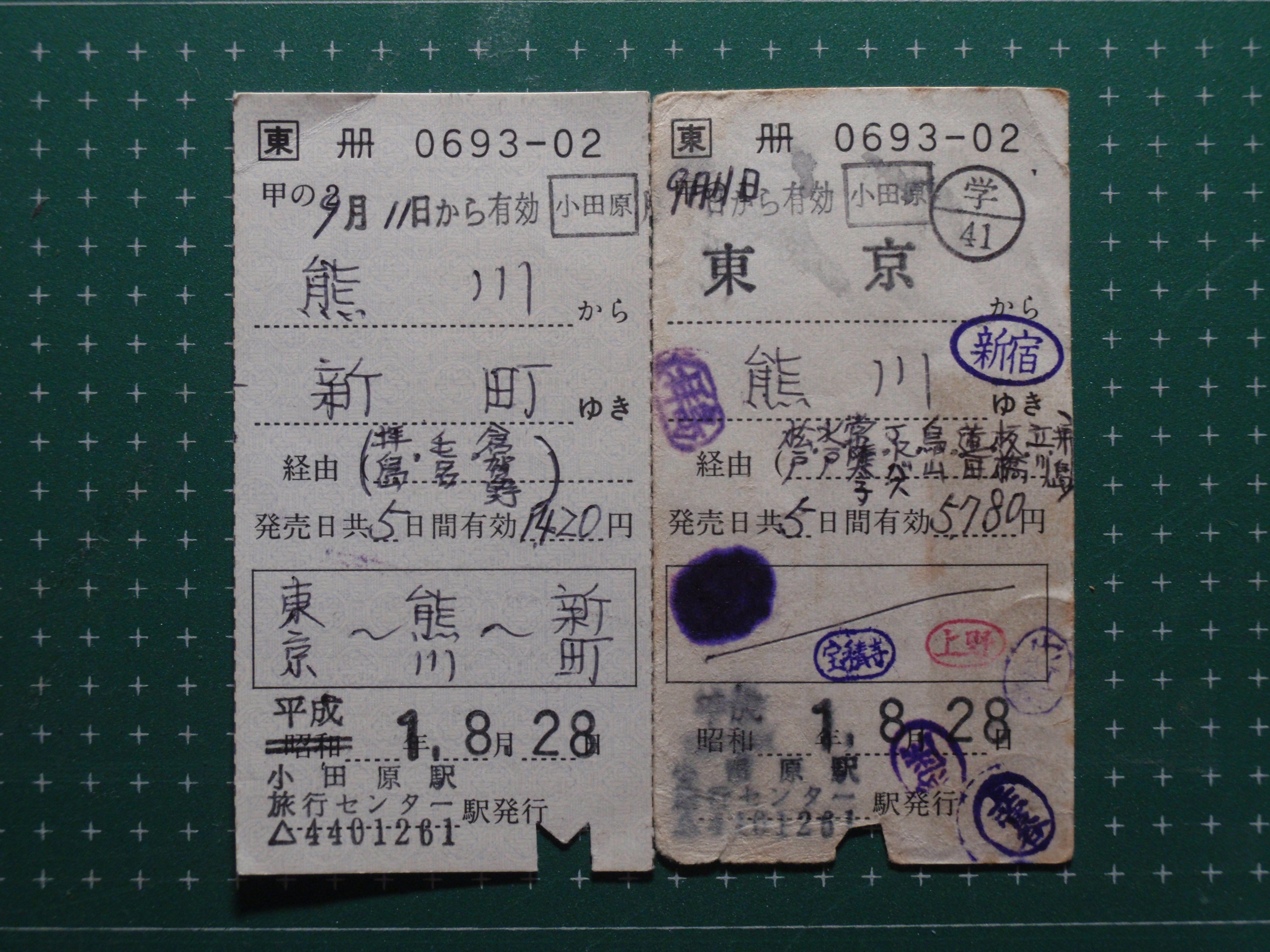 Ticket From Tokyo to Shinmachi via Kumagawa